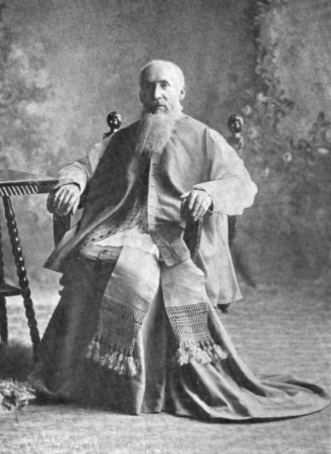 Portrait of Joseph Francis Buh from Compendium of History and Biography of Northern Minnesota, 1902, page 213